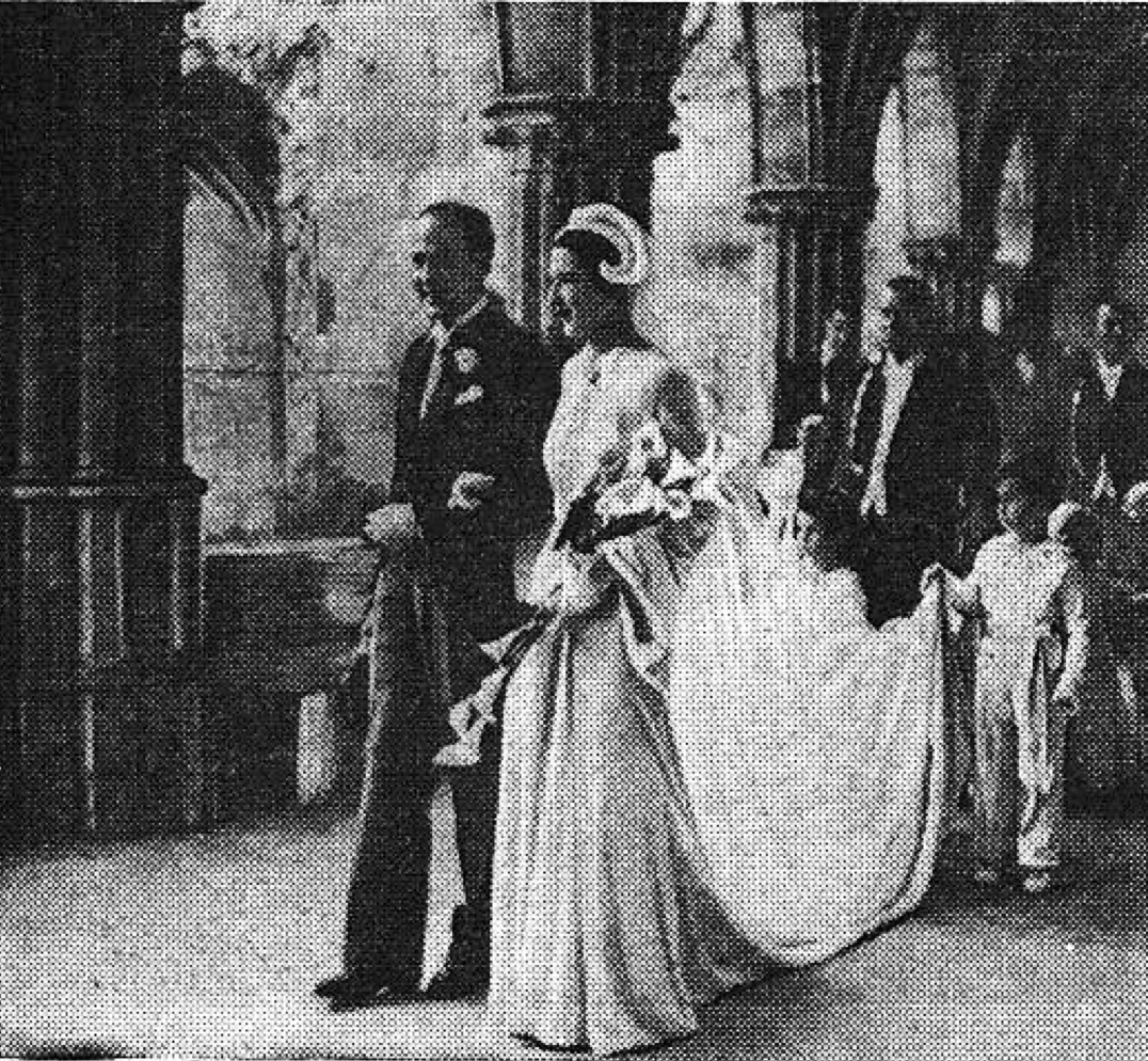 Mariage du baron Antoine Beyens et de Mlle Simone Goüin à l'abbaye de Royaumont